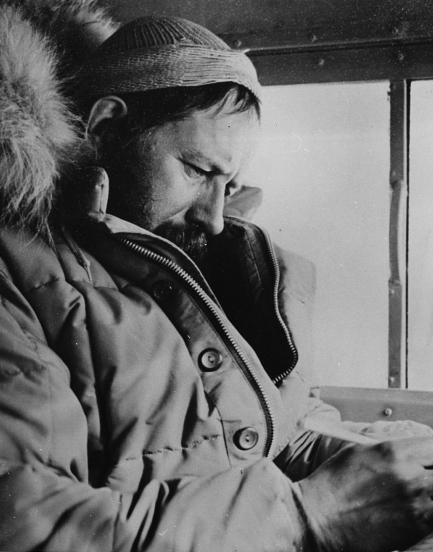 Albert Paddock Crary (1911-1987) date: 1959 location: Antarctica Geophysicist Albert Paddock Crary (1911-1987) was Deputy Chief Scientist of the U.S. International Geophysical Year (IGY) Antarctic Program, and Scientific Station Leader at Little America. Acc. 90-105 - Science Service, Records, 1920s-1970s, Smithsonian Institution Archives [personal and educational use permitted]